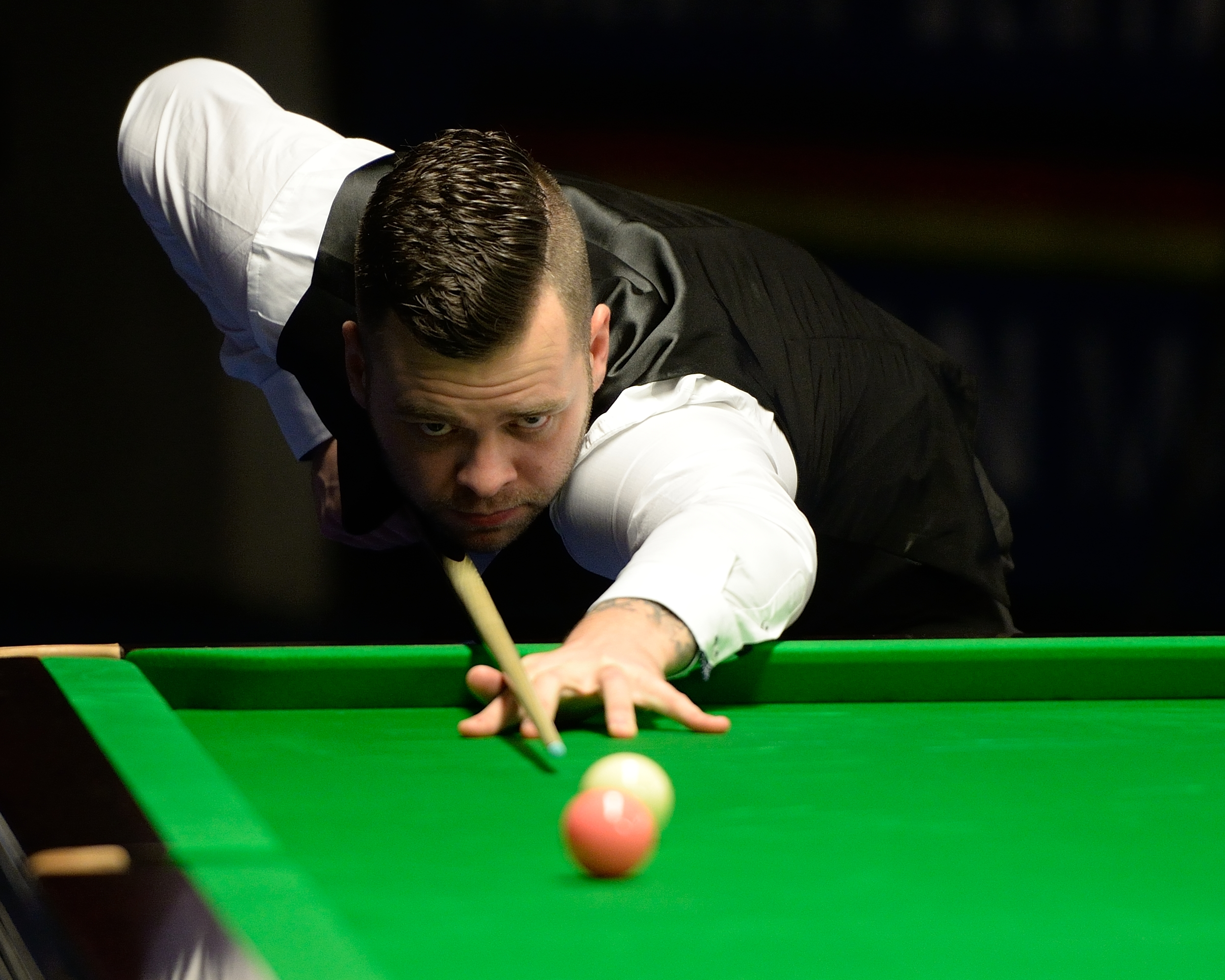 Picture taken in Berlin during the Snooker German Masters in 2015. Jimmy Robertson.